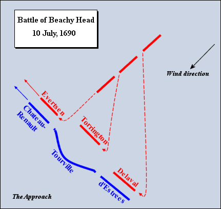 This image is selfmade